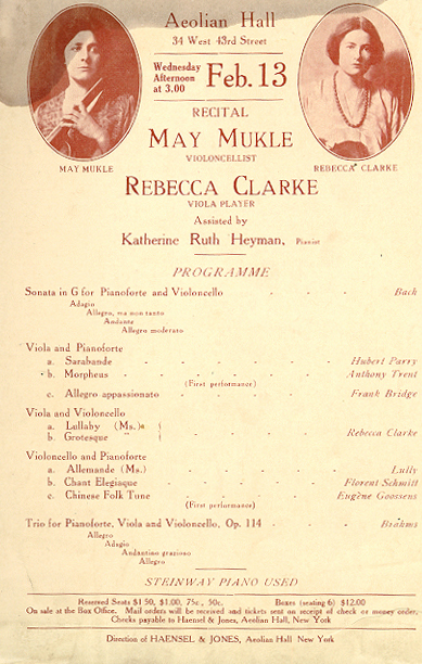 Program sheet for Rebecca Clarke's first performance of Morpheus[1]